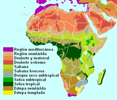 Map of biomes of Africa (in Spanish)